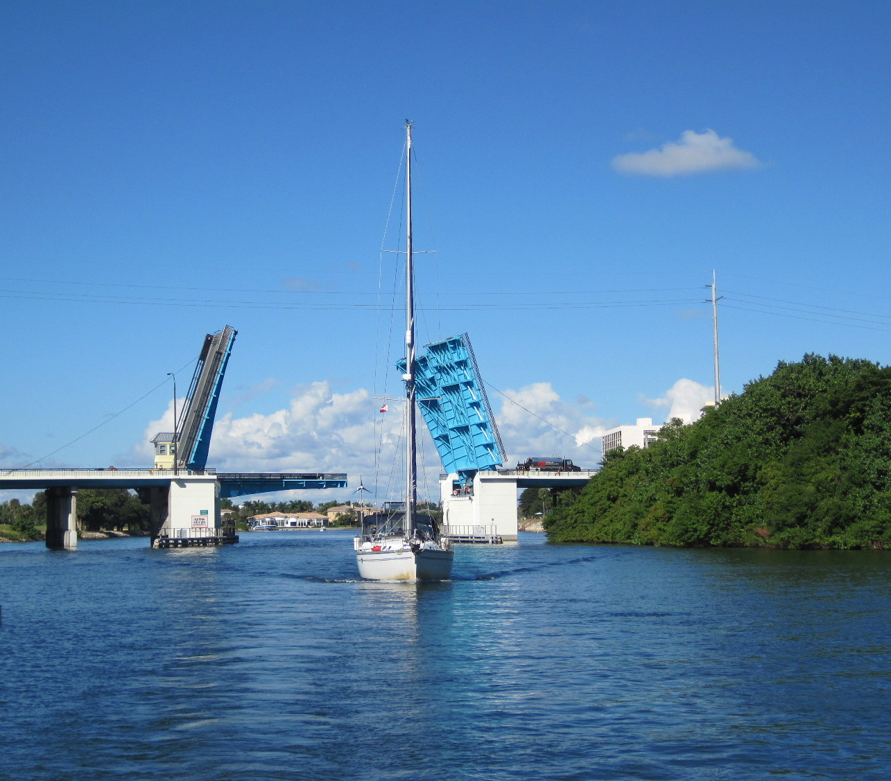 Parker Bridge, or Parker Drawbridge, is a 1956 double-leaf bascule bridge carrying U.S. Route 1 over the Intracoastal Waterway, in North Palm Beach, Florida.